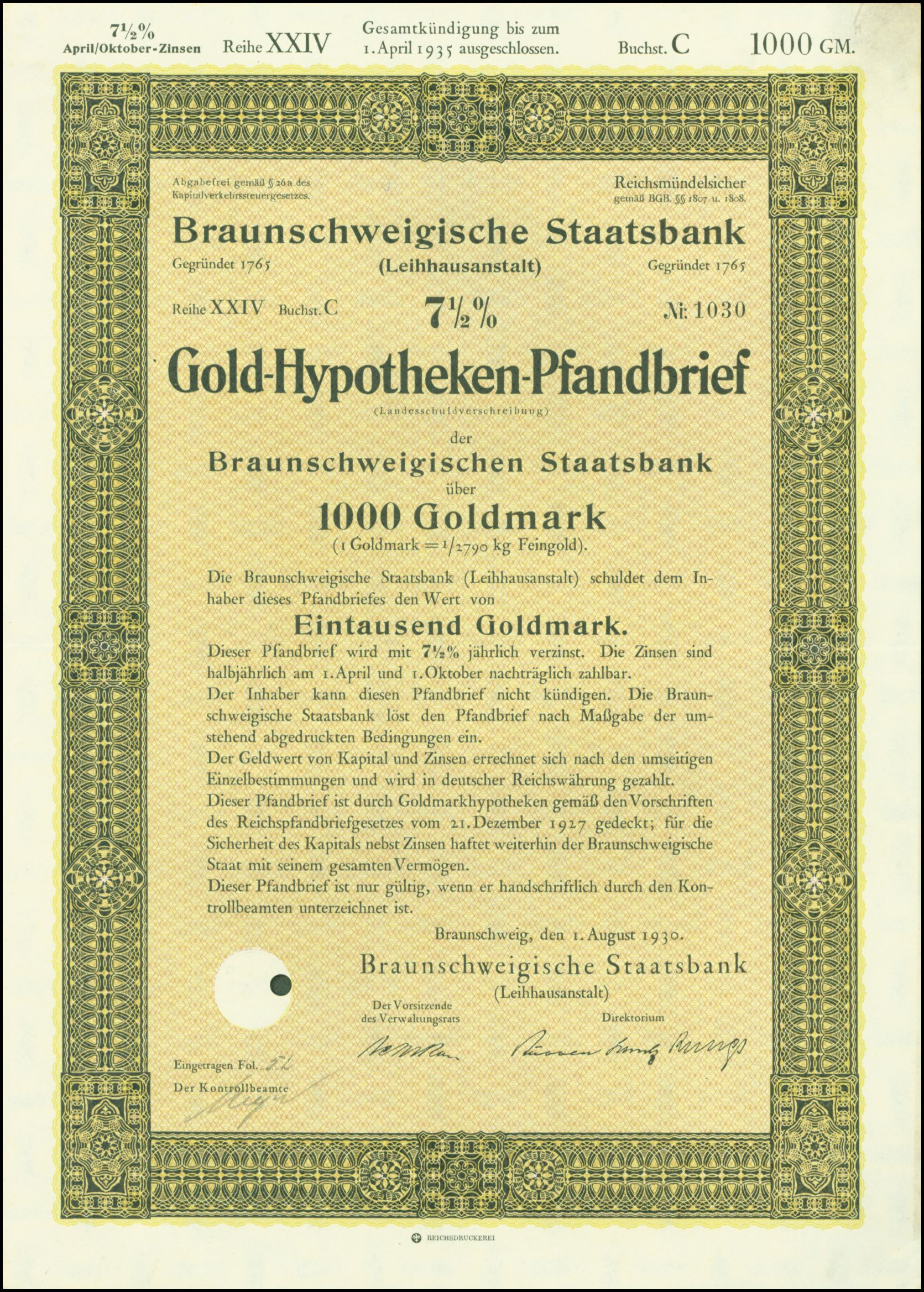 Bond of the Braunschweiger Staatsbank, issued 1. August 1930